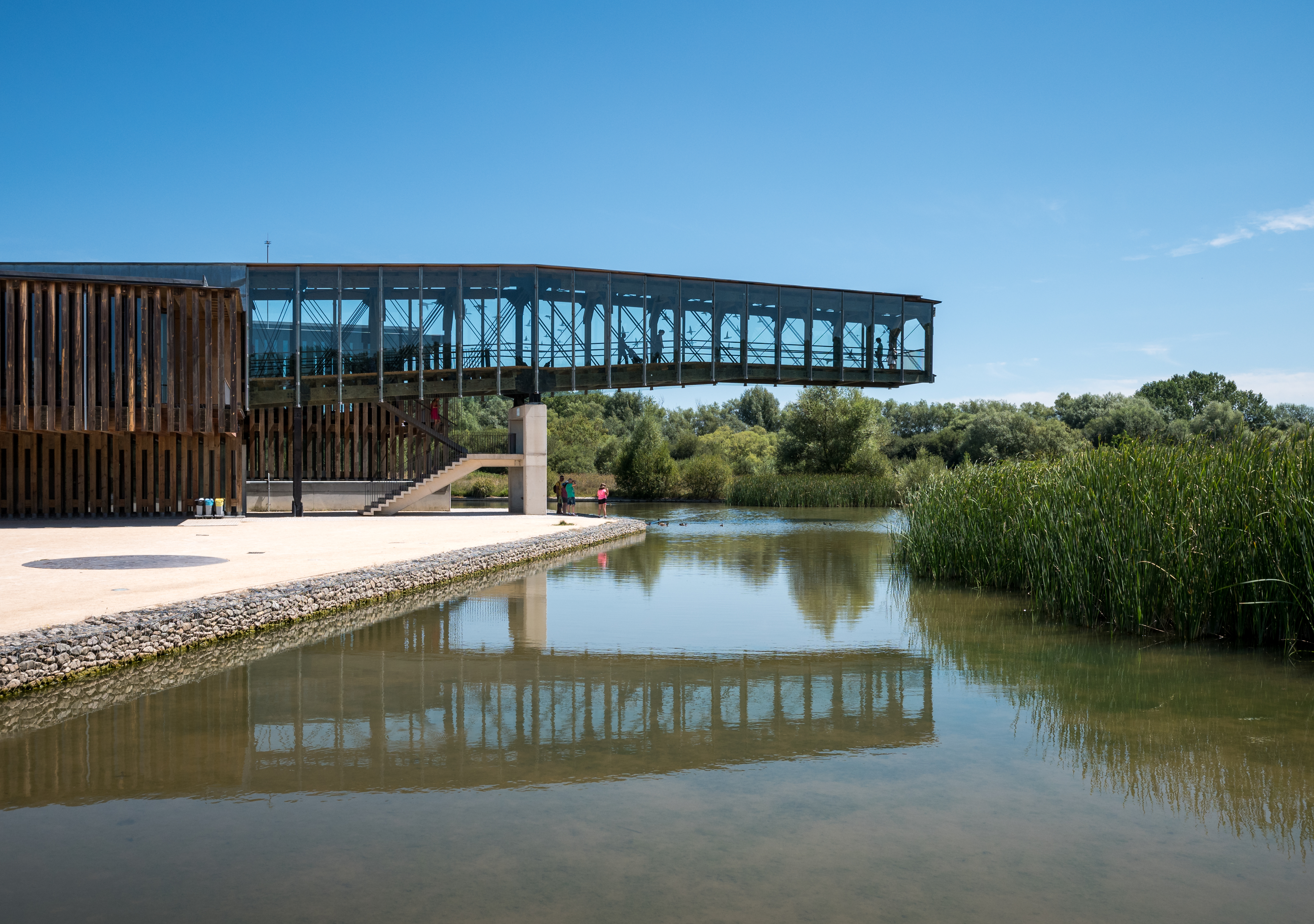 Ataria Interpretation Centre of the Salburua wetlands and viewpoint. Vitoria-Gasteiz, Basque Country, Spain